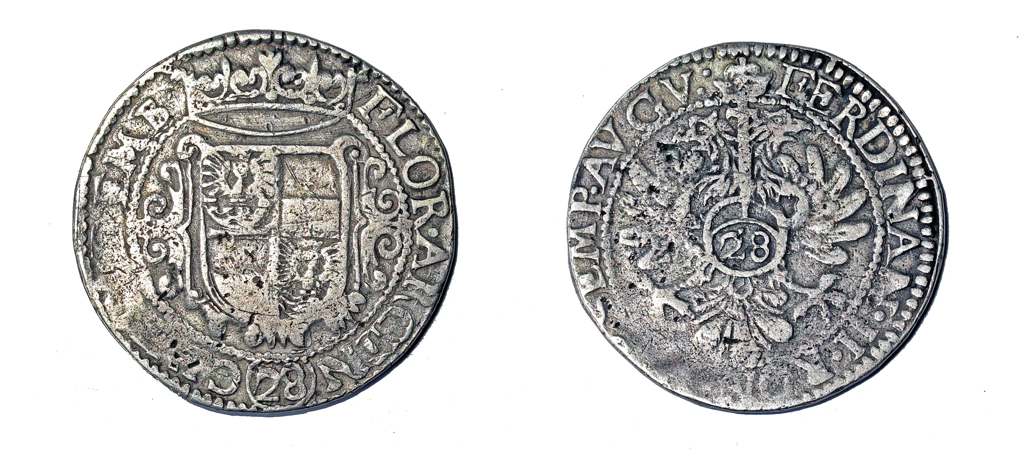 Gulden zu 28 Stueber. Emden. Ferdinand II (1619-1637)